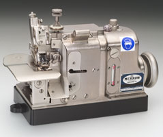 merrow, merrow sewing machine company, this image is available for public use